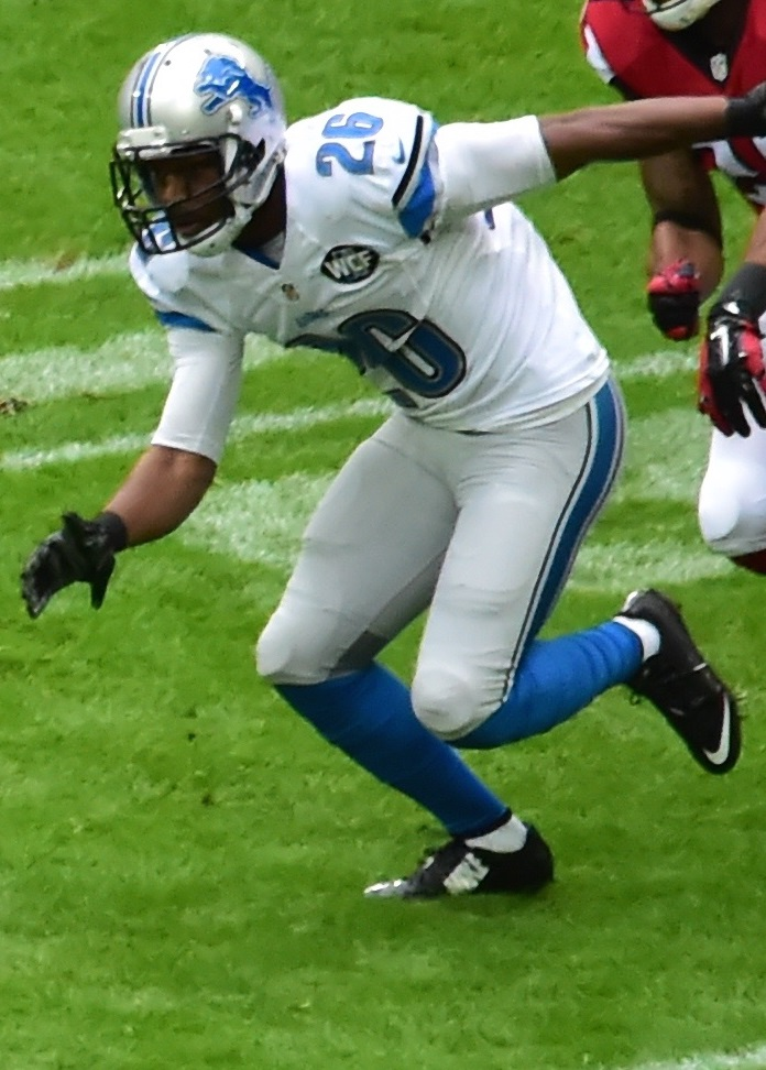 Detroit Lions vs Atlanta Falcons - Wembley 2014